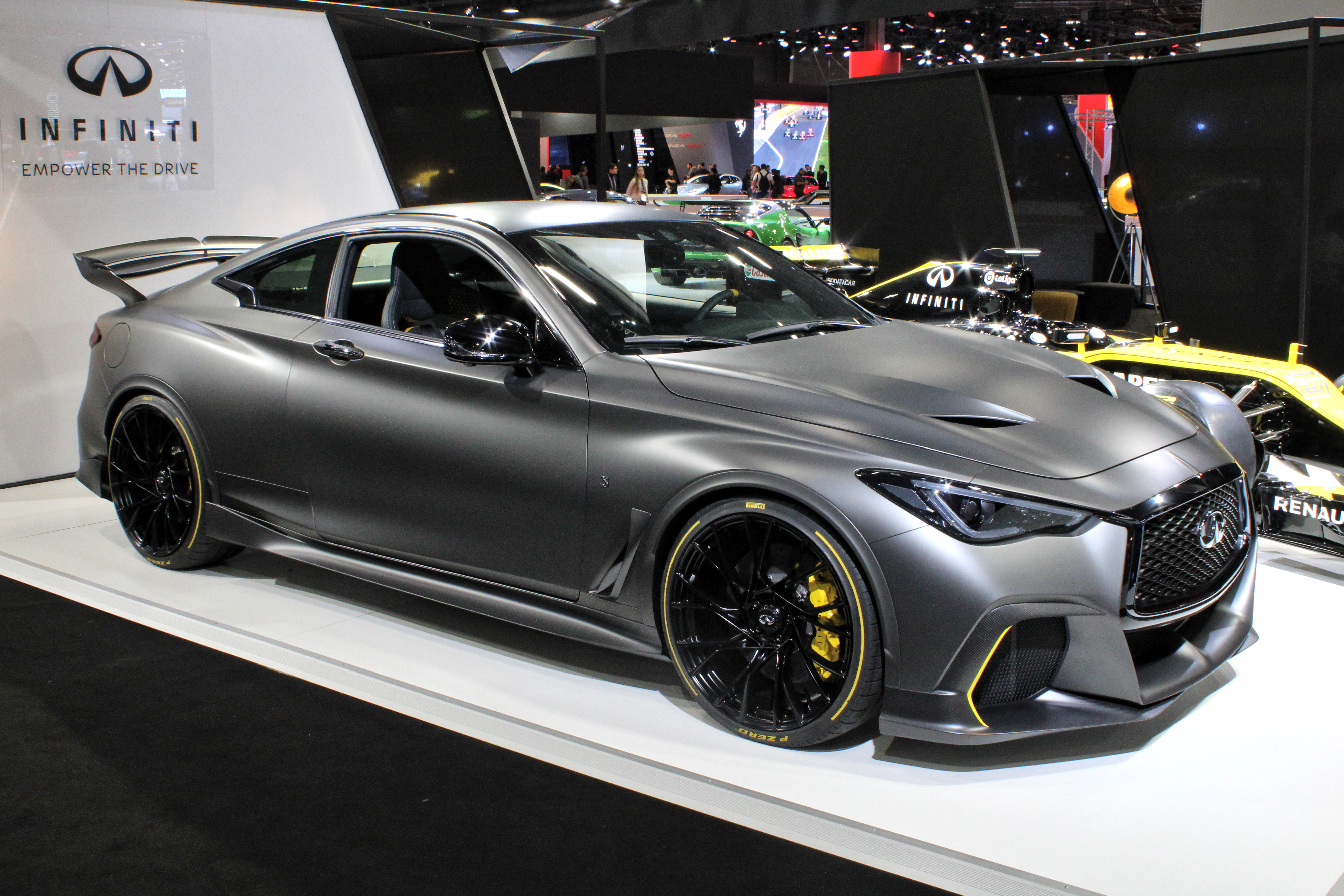 Infiniti Q60 Project Black S at Paris Motor Show 2018